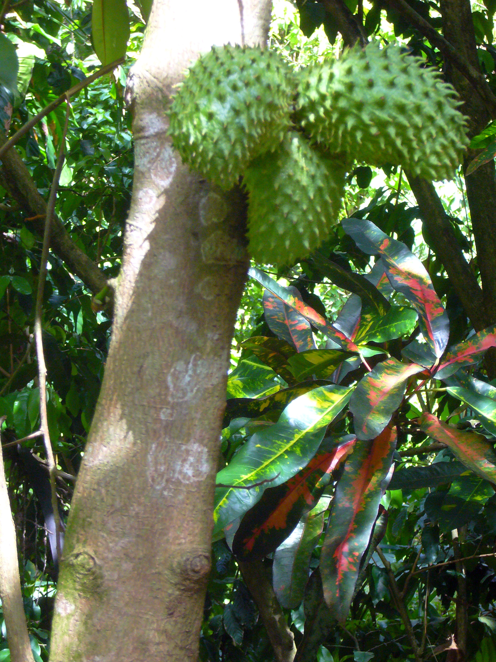 Annona muricata (Soursop) - tree with fruits